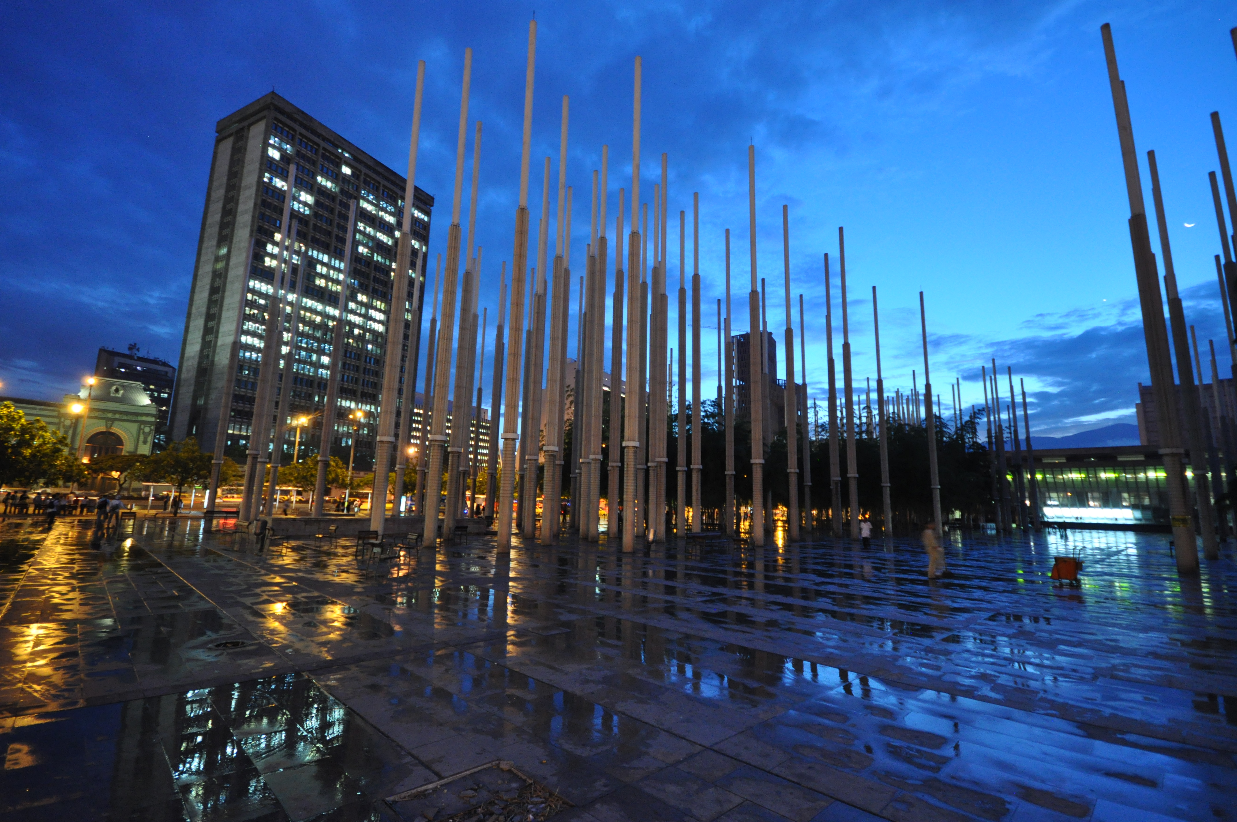 Cisneros square, Medellin, Colombia